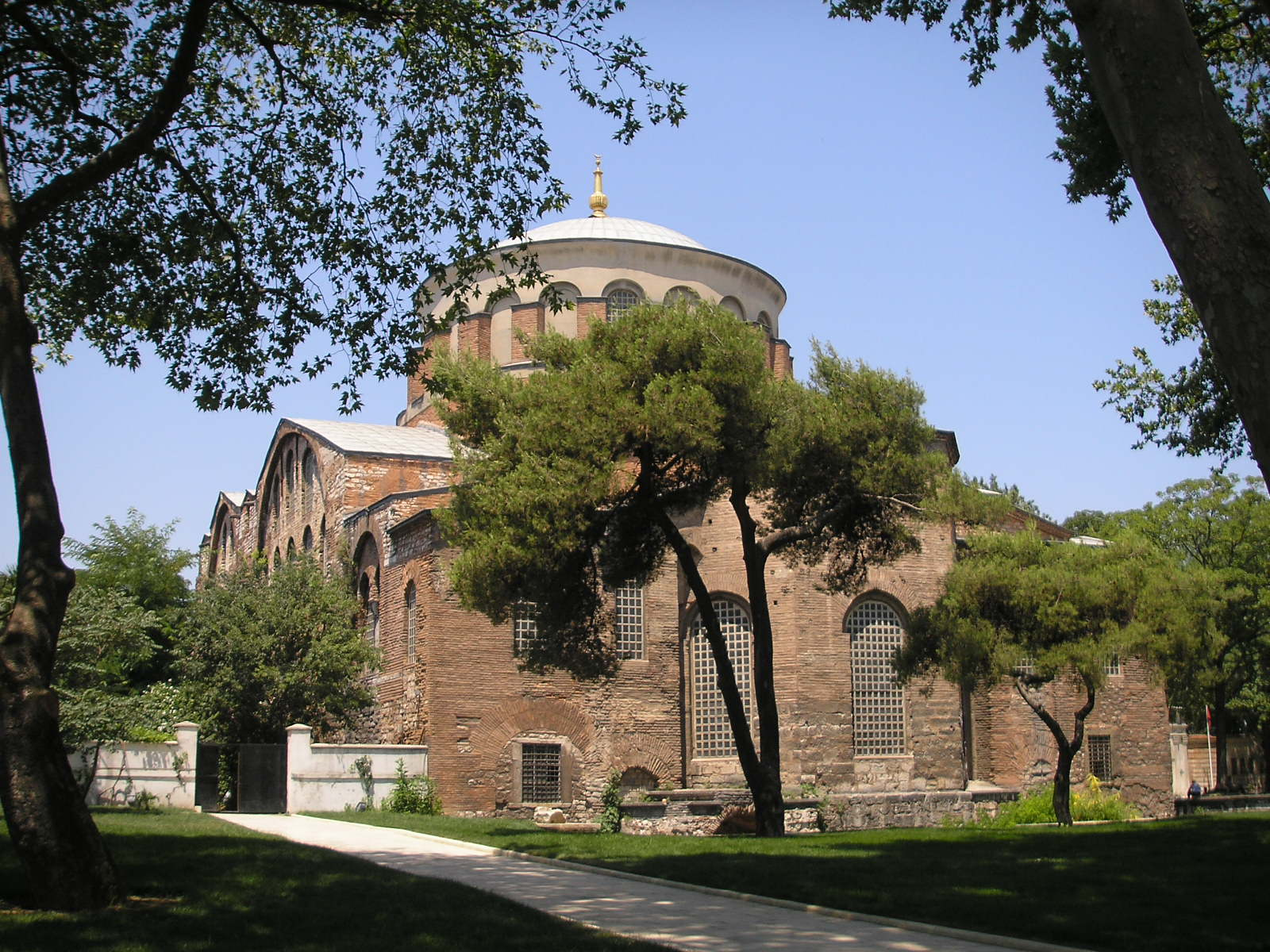 The Hagia Eirene church from outside, in the first courtyard of the Topkapi Palace.